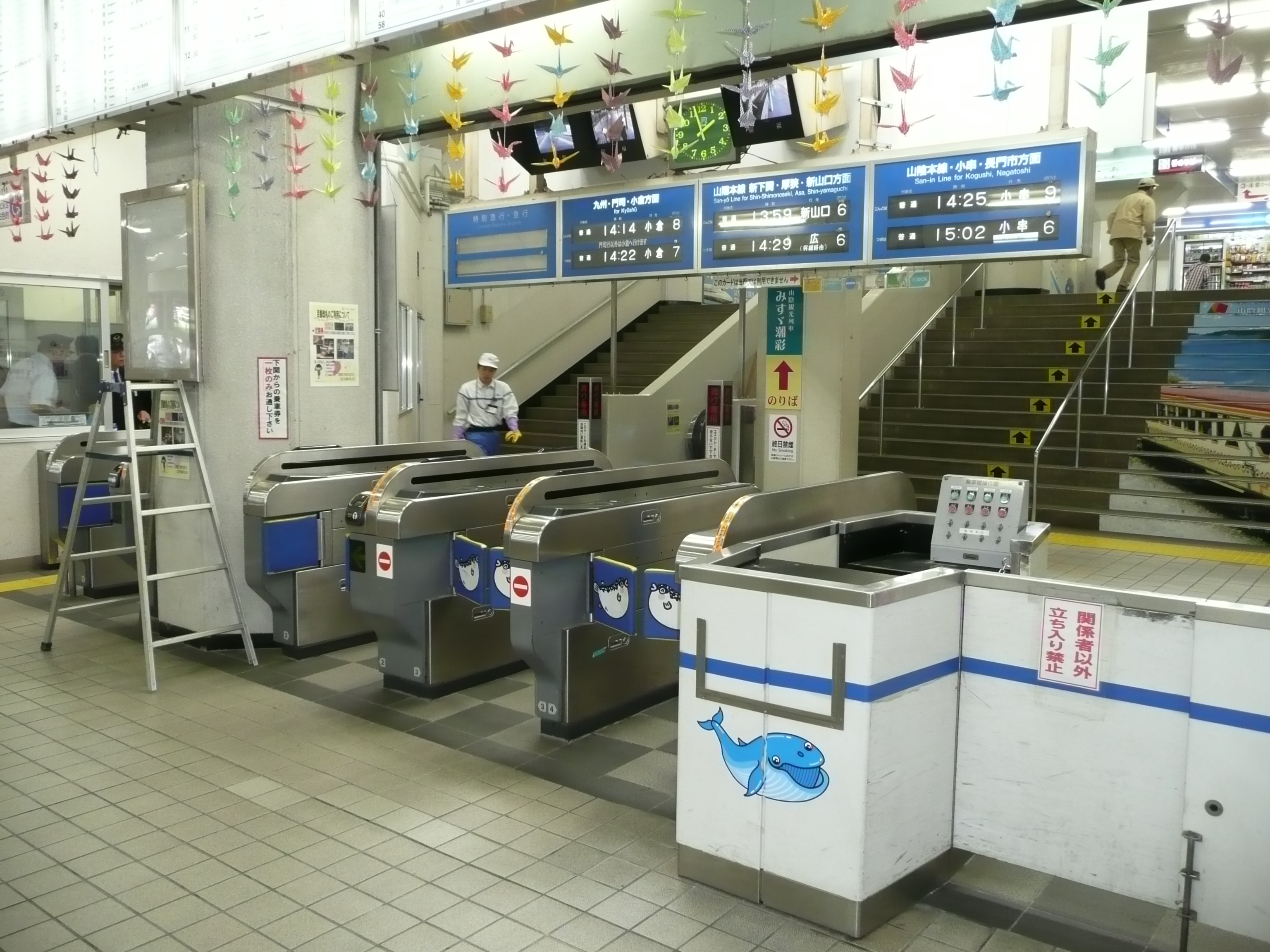 下関駅の改札口